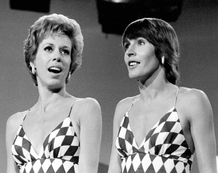 Publicity photo of Carol Burnett and singer Helen Reddy from The Carol Burnett Show.